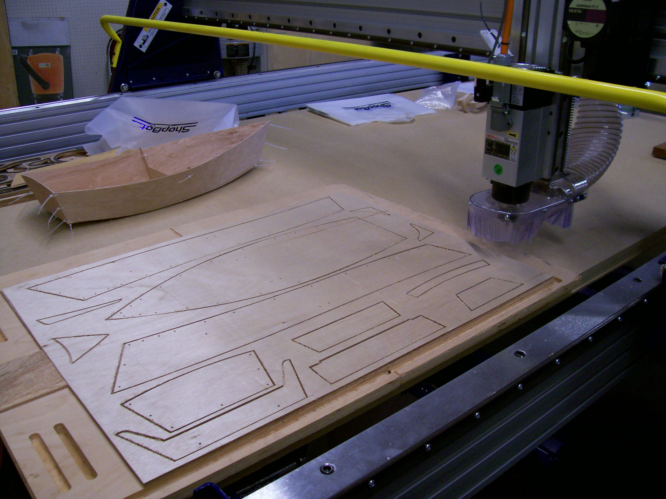 This machine cut out pieces from a sheet of thin plywood for making into a boat.